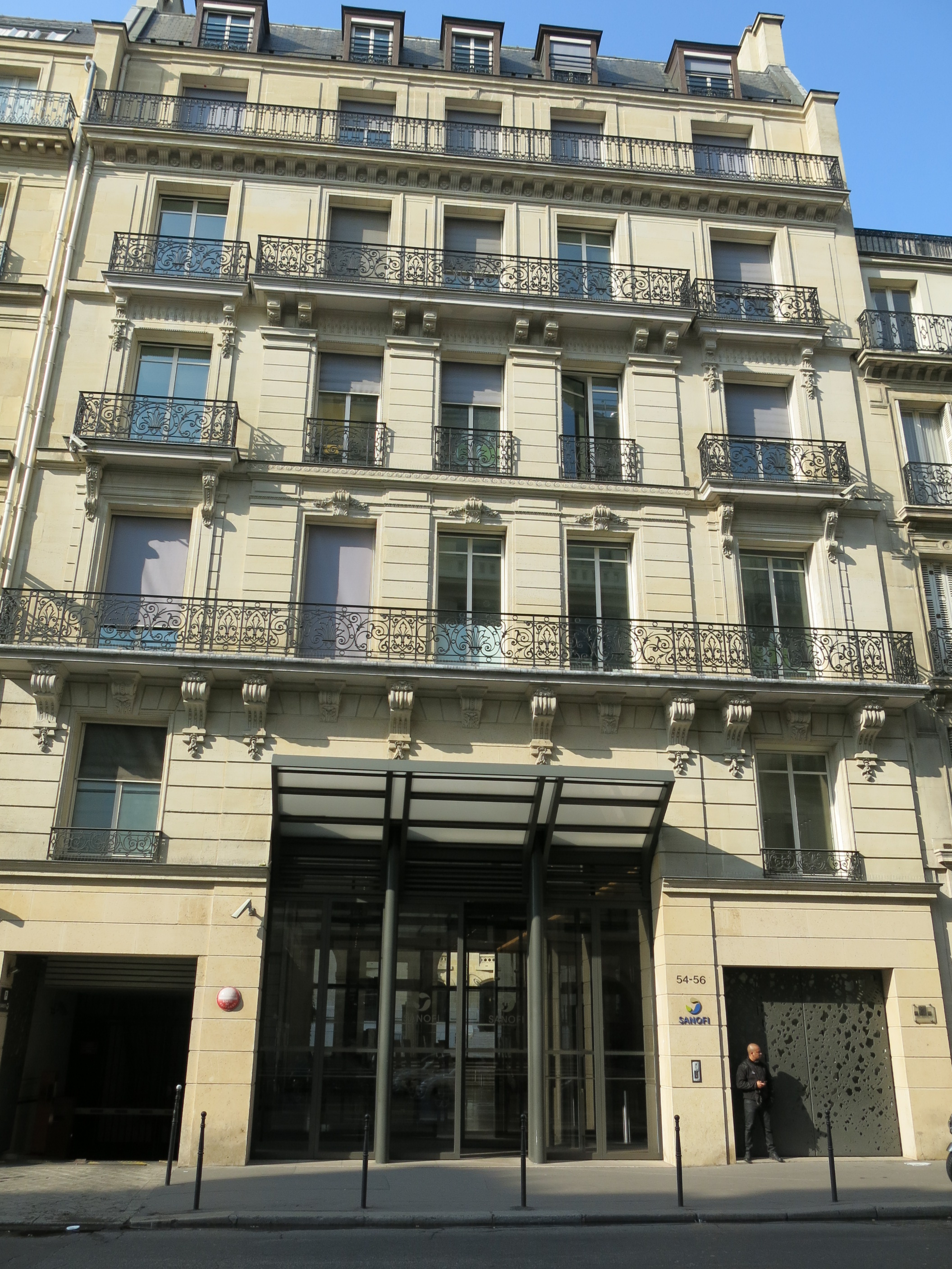 Sanofi head office, 54-56 rue de la Boétie, Paris 8th arr. Former head office of Alcatel-Lucent.